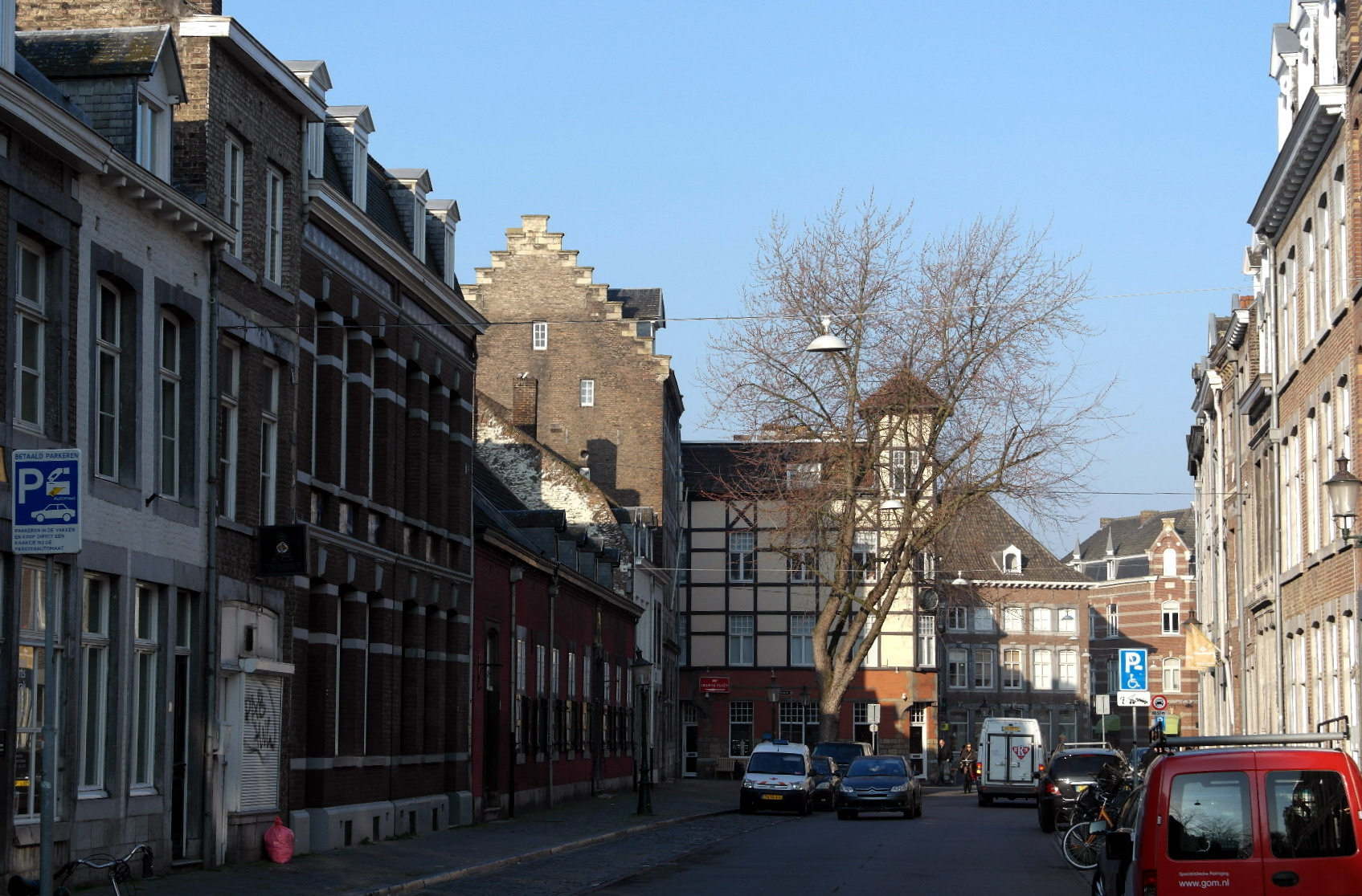 Maastricht, the Netherlands. View towards the west of Hoogbrugstraat in Wyck.